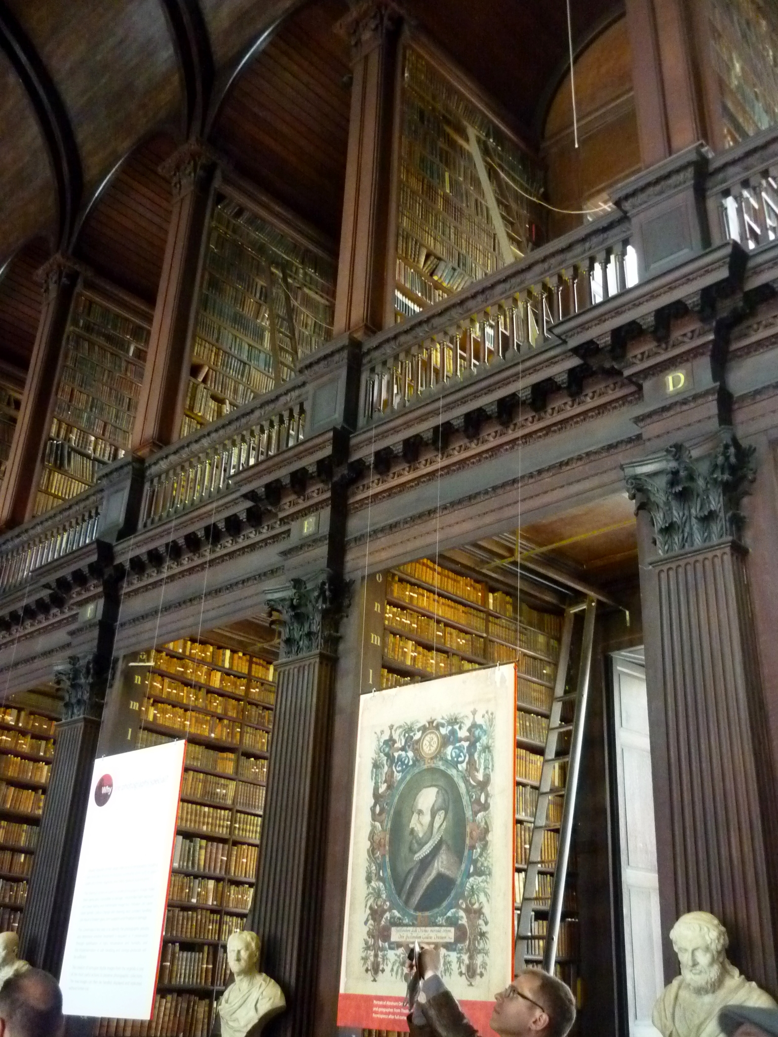 Longroom of the Trinity College (Dublin) library